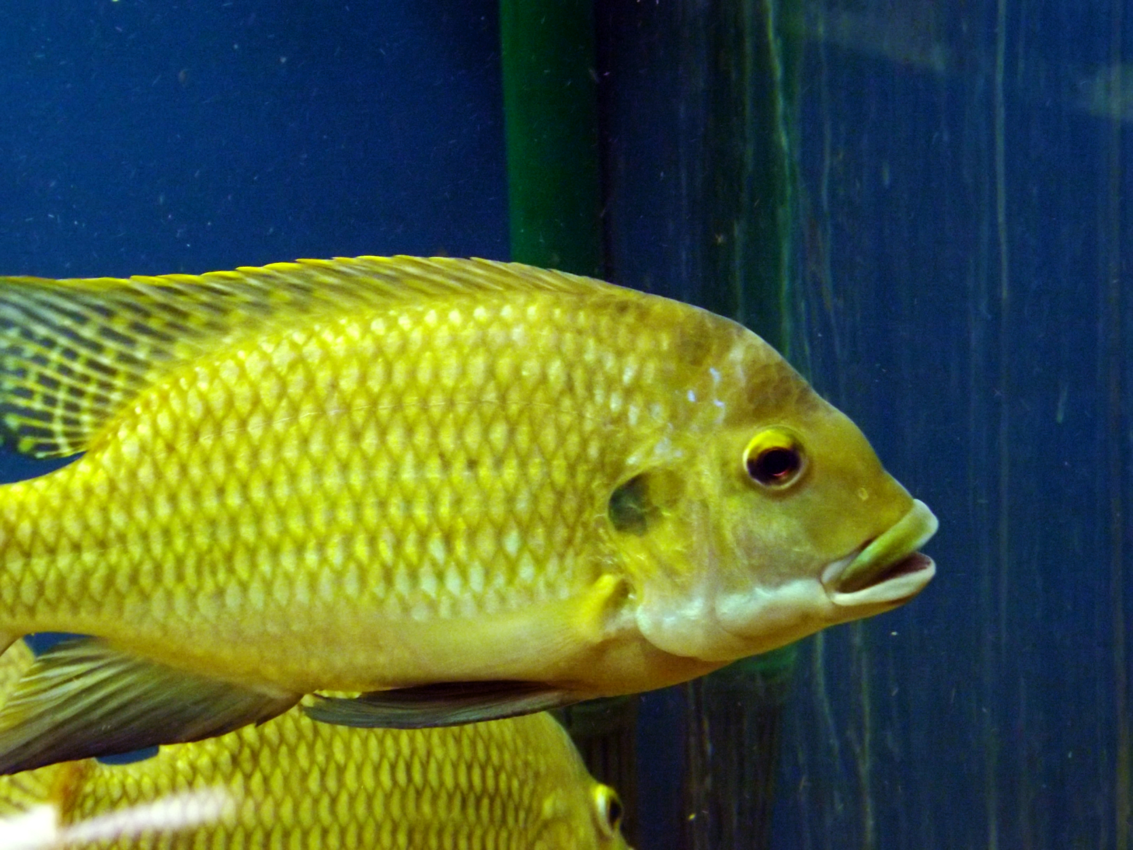 A St. Peter's Fish (Tilapia zilli) at the Jerusalem Biblical Zoo.